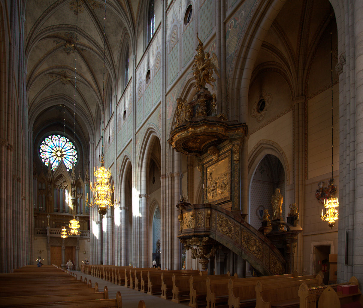 Uppsala Cathedral interior